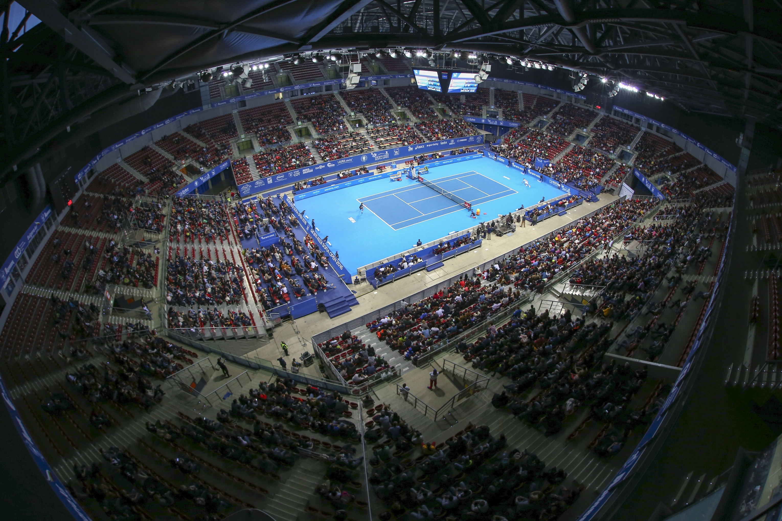 Garanti Koza Sofia Open at Arena Armeets during the inauguration edition of the ATP 250 event in Sofia, Bulgaria